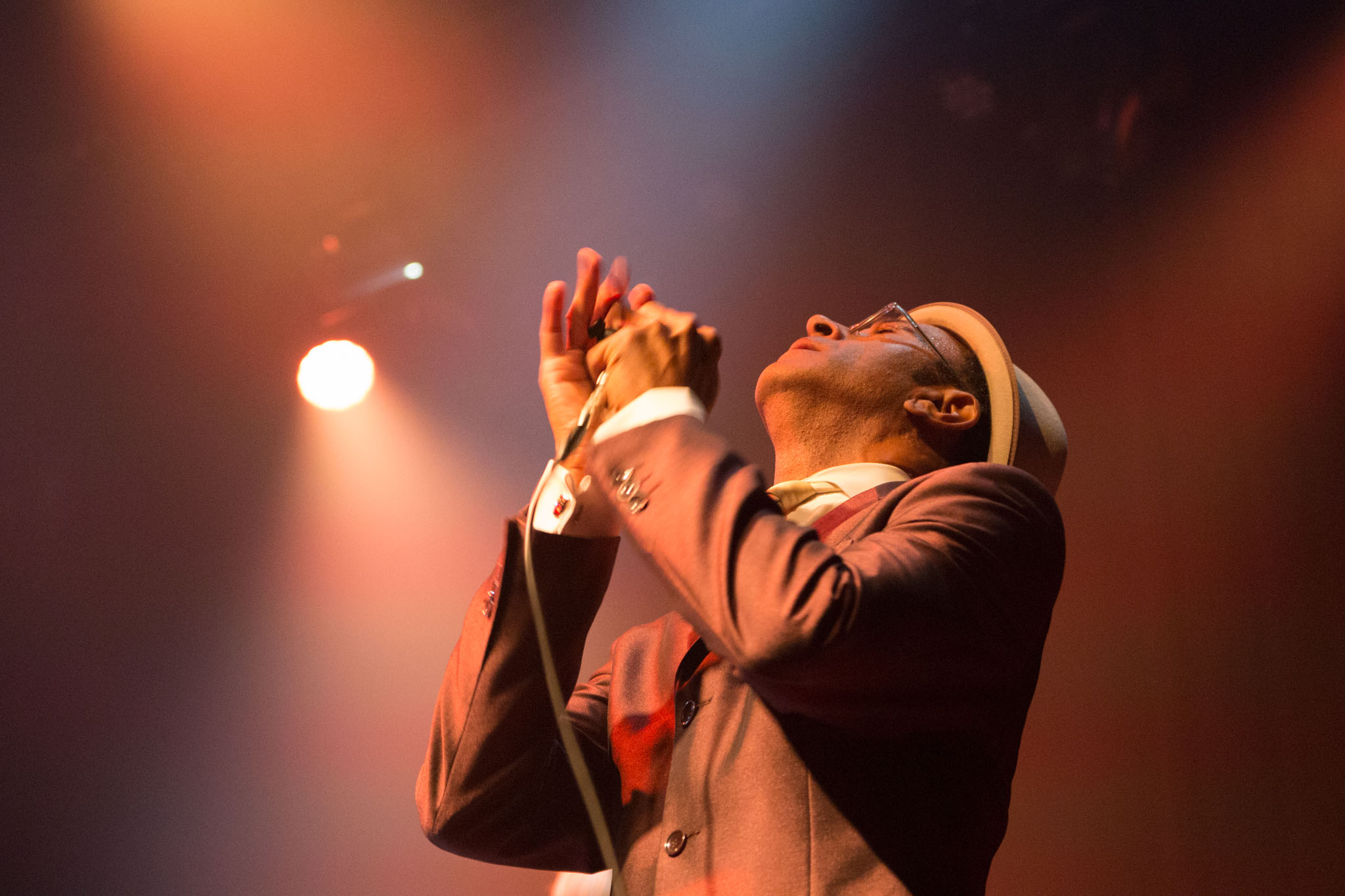 This is a photo of the musical artist Shawn Amos, performing as the Reverend Shawn Amos, in Utrecht at the Ramblin' Roots festival